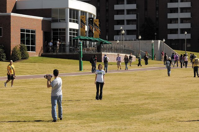 UAB campus green